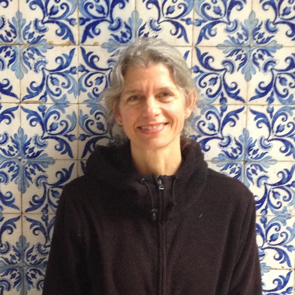 Wendy Artin in front of a tiled wall in Portugal, 2015